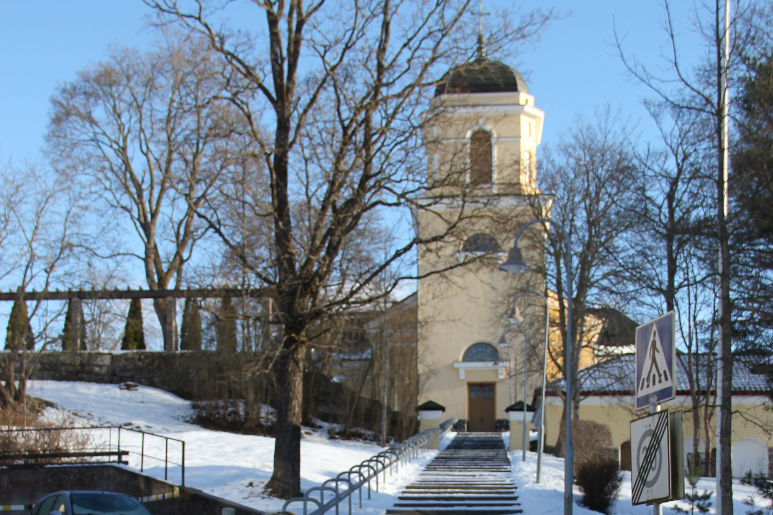 Vihdin kirkko, Vihti, Uusimaa, Finland